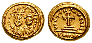 Heraclius. 610-641. AV Solidus (4.43 g). Struck 625/6-626/7. Carthage mint. dN ERA COMT P P ID (indictional year 14), crowned facing busts of Heraclius and Heraclius Constantinus VICTORIA AVCC IE (indictional year 15), cross potent on steps; CONOB. MIB III 83 (2) (mule of two different years); DOC -; SB 867. Following the reconquest from the Vandals in 533, Carthage became the civil and military capital of the prefecture of Africa. This issue has been dated with indiction years, rather than regnal years, this being part of a fifteen-year cycle used by the Byzantine fiscal authorities and marking the intervals at which tax schedules were revised.